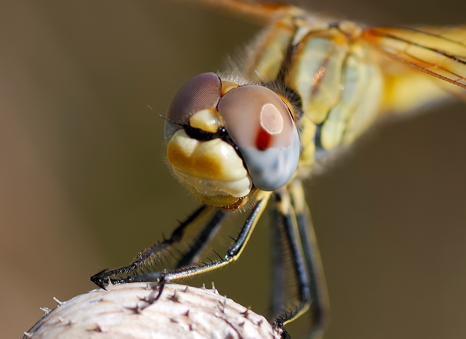 Head of the Red-veined darter dragonfly (Sympetrum fonscolombii)